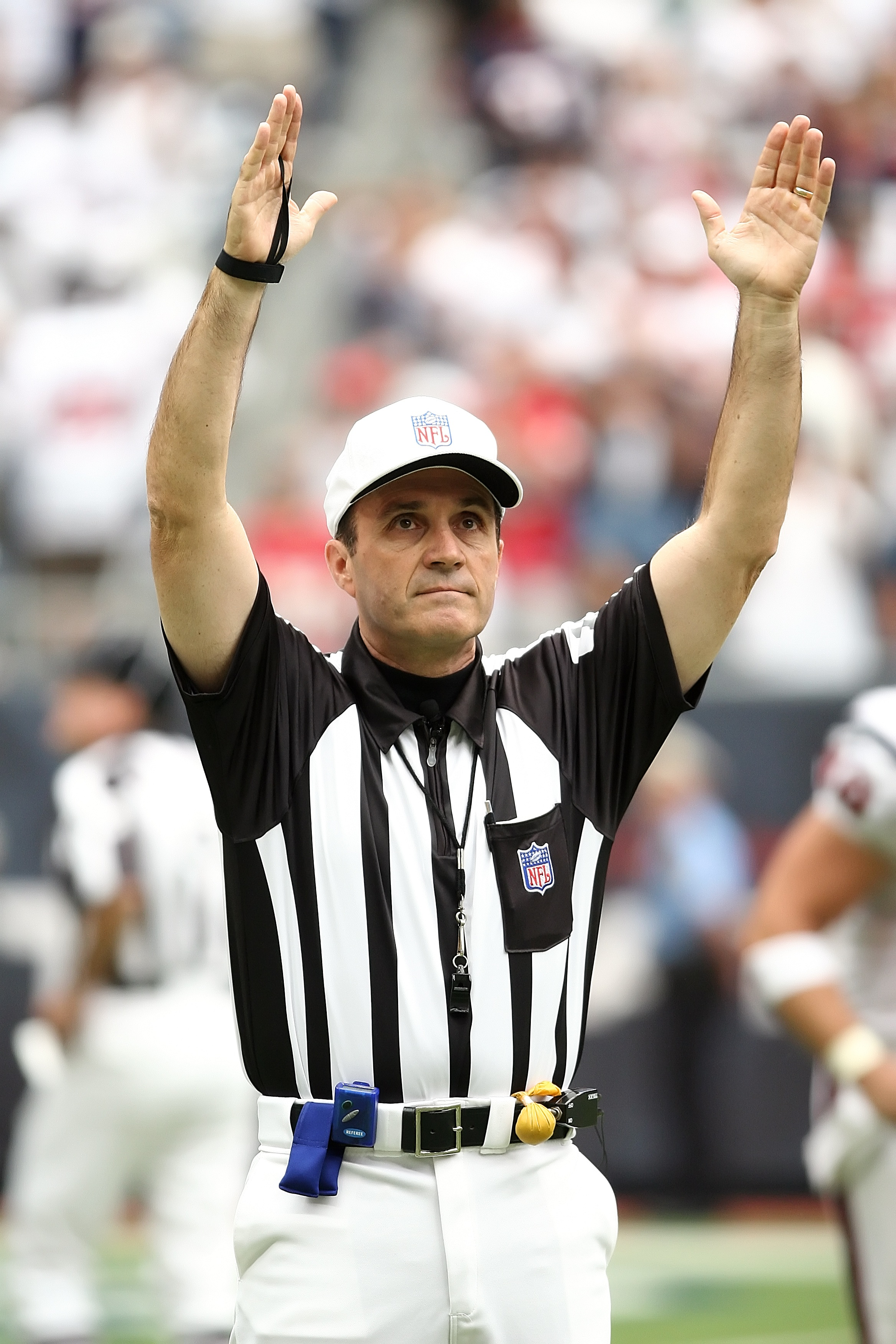 NFL official Pete Morelli in a 2006 game between the Houston Texans and Philadelphia Eagles